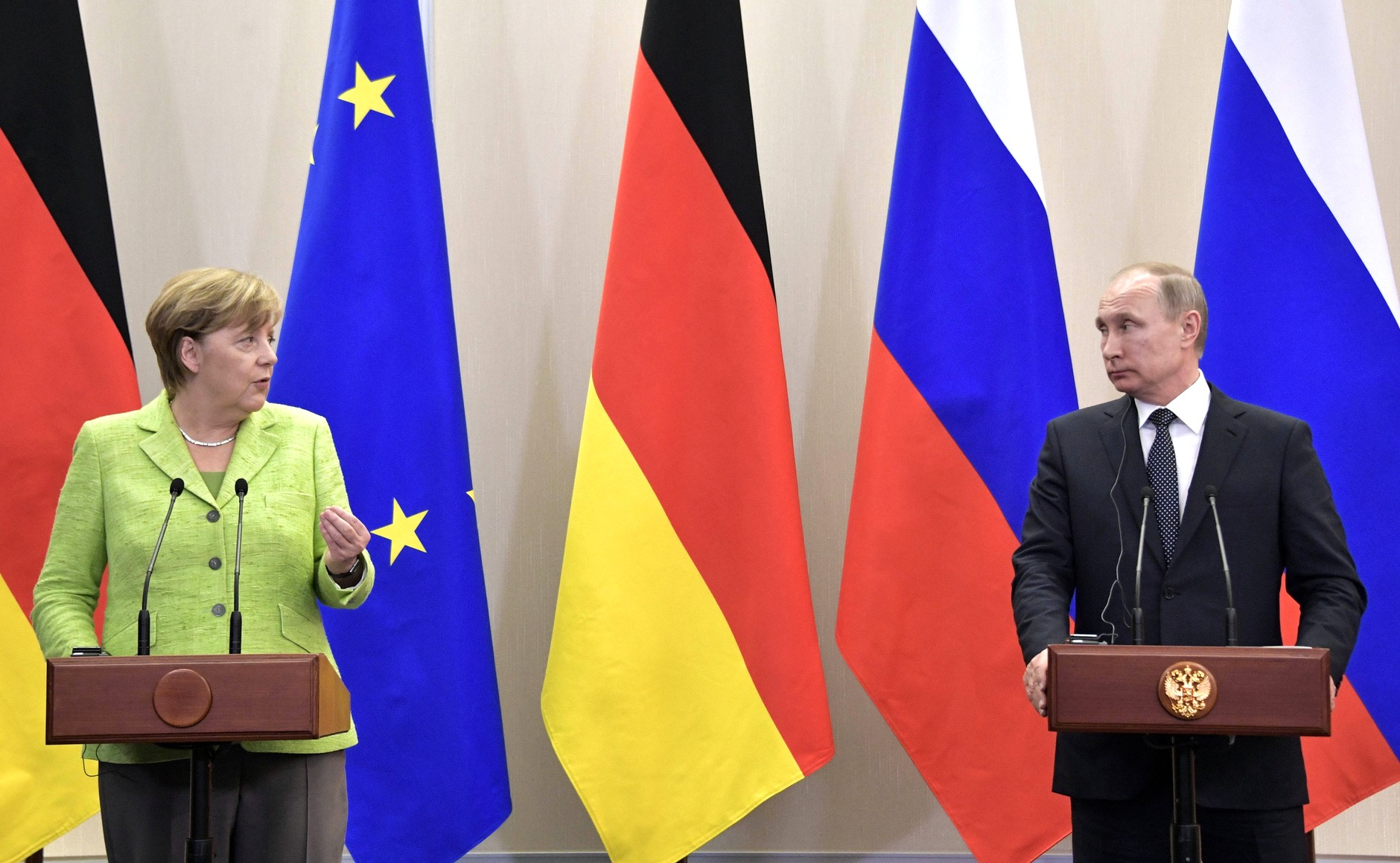 Vladimir Putin received Federal Chancellor of the Federal Republic of Germany Angela Merkel at his Sochi residence